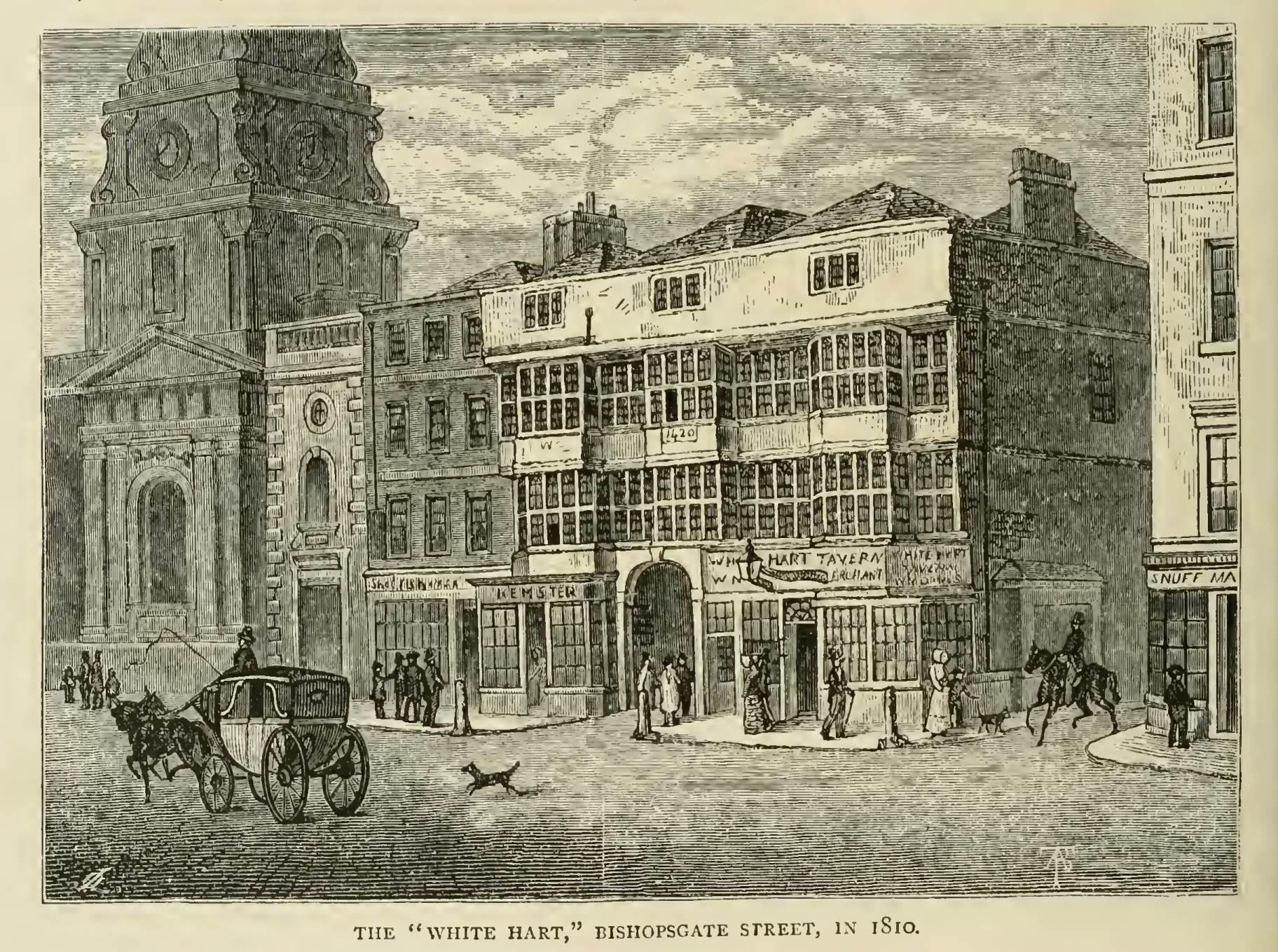 White Hart Tavern, Bishopsgate, London.